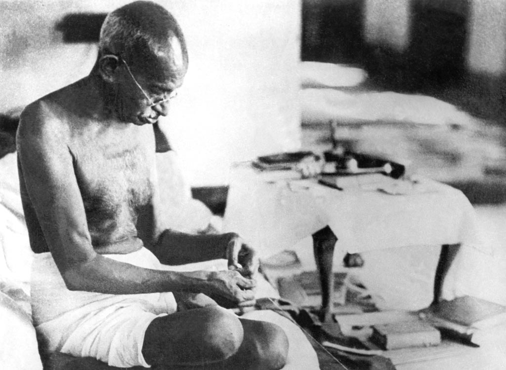 Gandhi spinning at Birla House, Mumbai, August 1942.